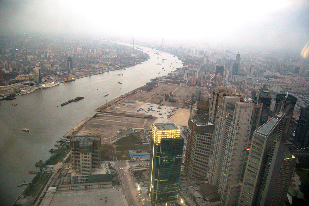 Huangpu River, Shanghai. Photo by ashish100, CC License, December 2, 2005.